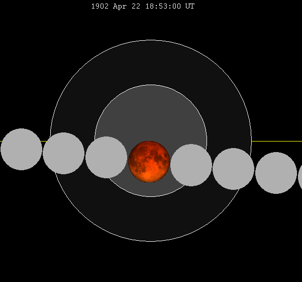 April 1902 lunar eclipse chart of moon's central total lunar eclipse path through the earth's shadow. thumb